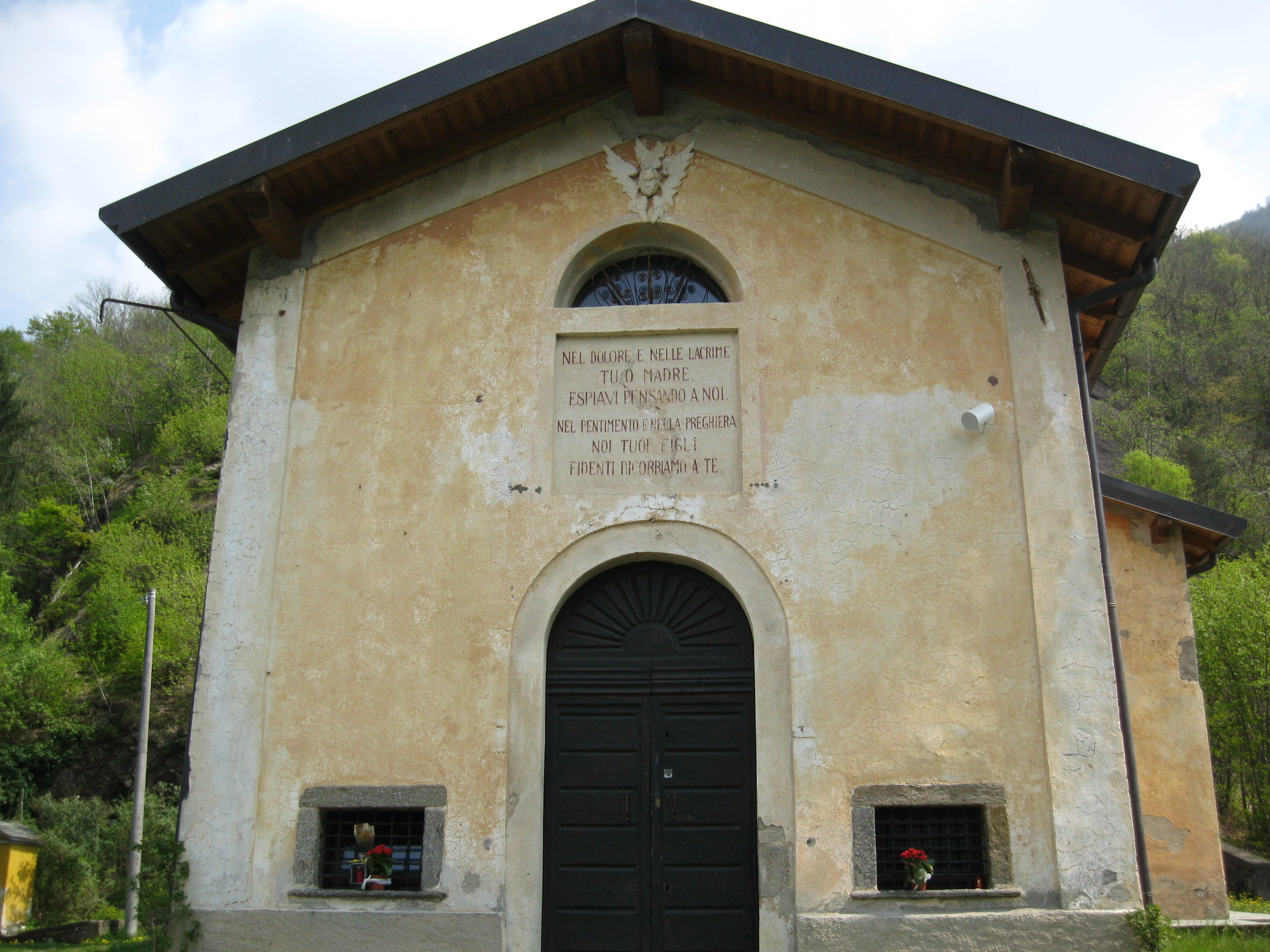 S. Catherine's church in Introbio, a small town in Lombardy, Italy